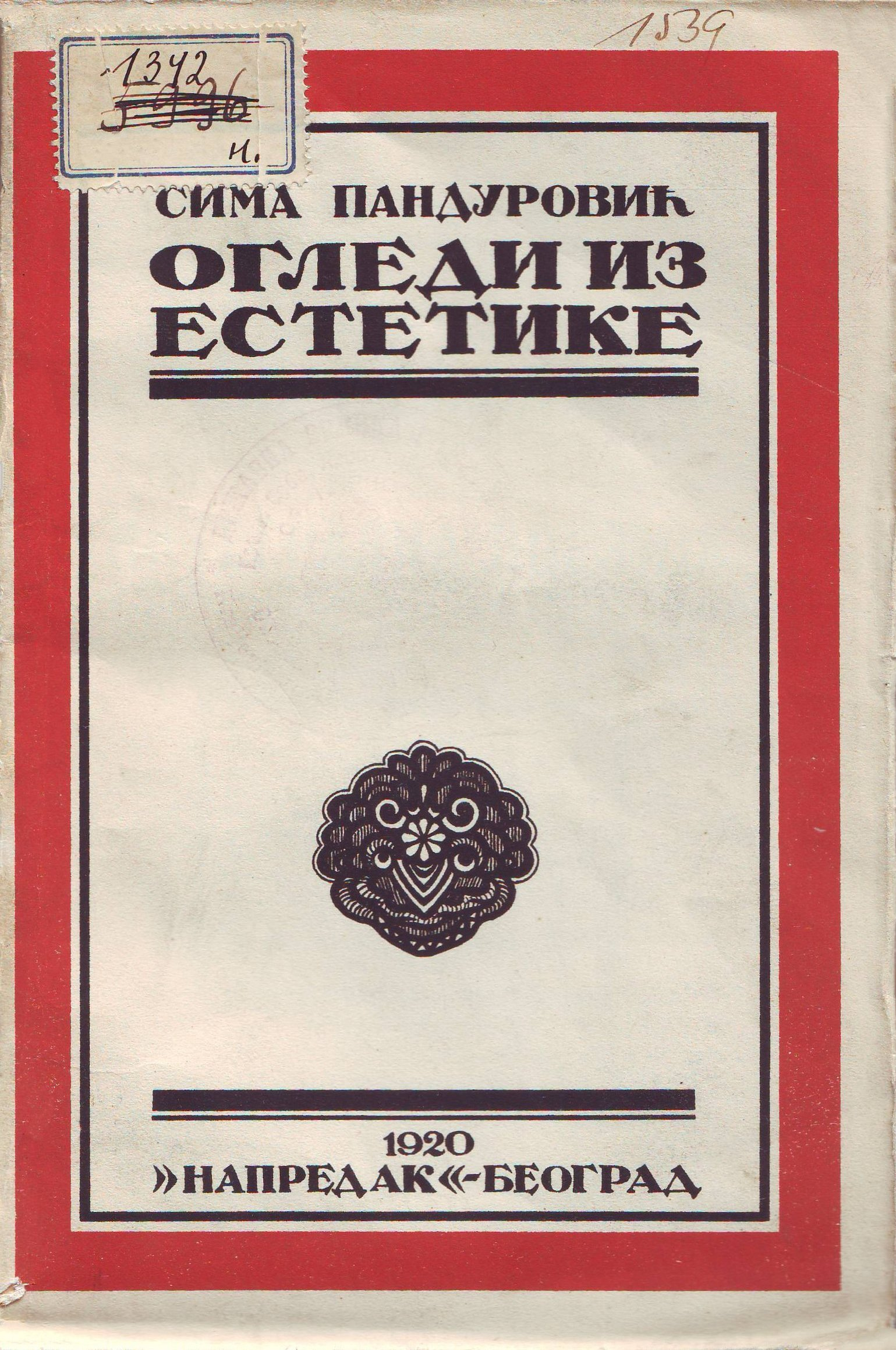 Cover of the book Ogledi iz estetike (1920) by Sima Pandurović. Srpski (latinica): Naslovna strana knjige Ogledi iz estetike (1920) Sime Pandurovića.